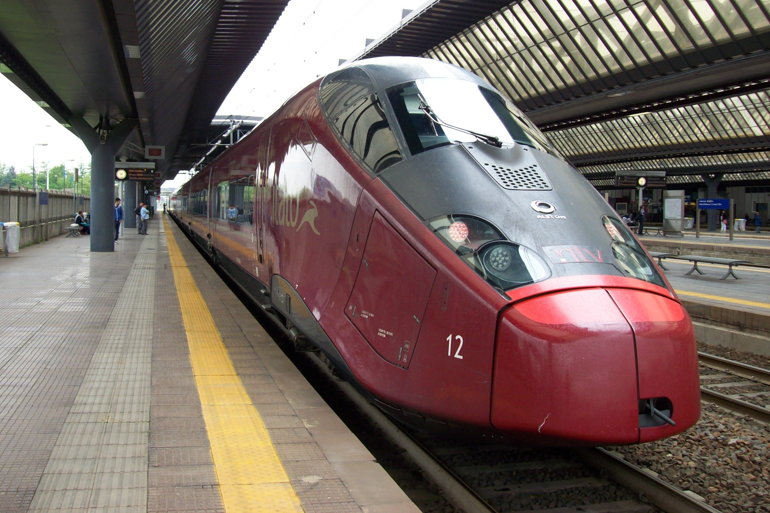 A high speed train Alstom NTV ETR 575 about leaving for Rome at the Rogoredo railway station in Milan